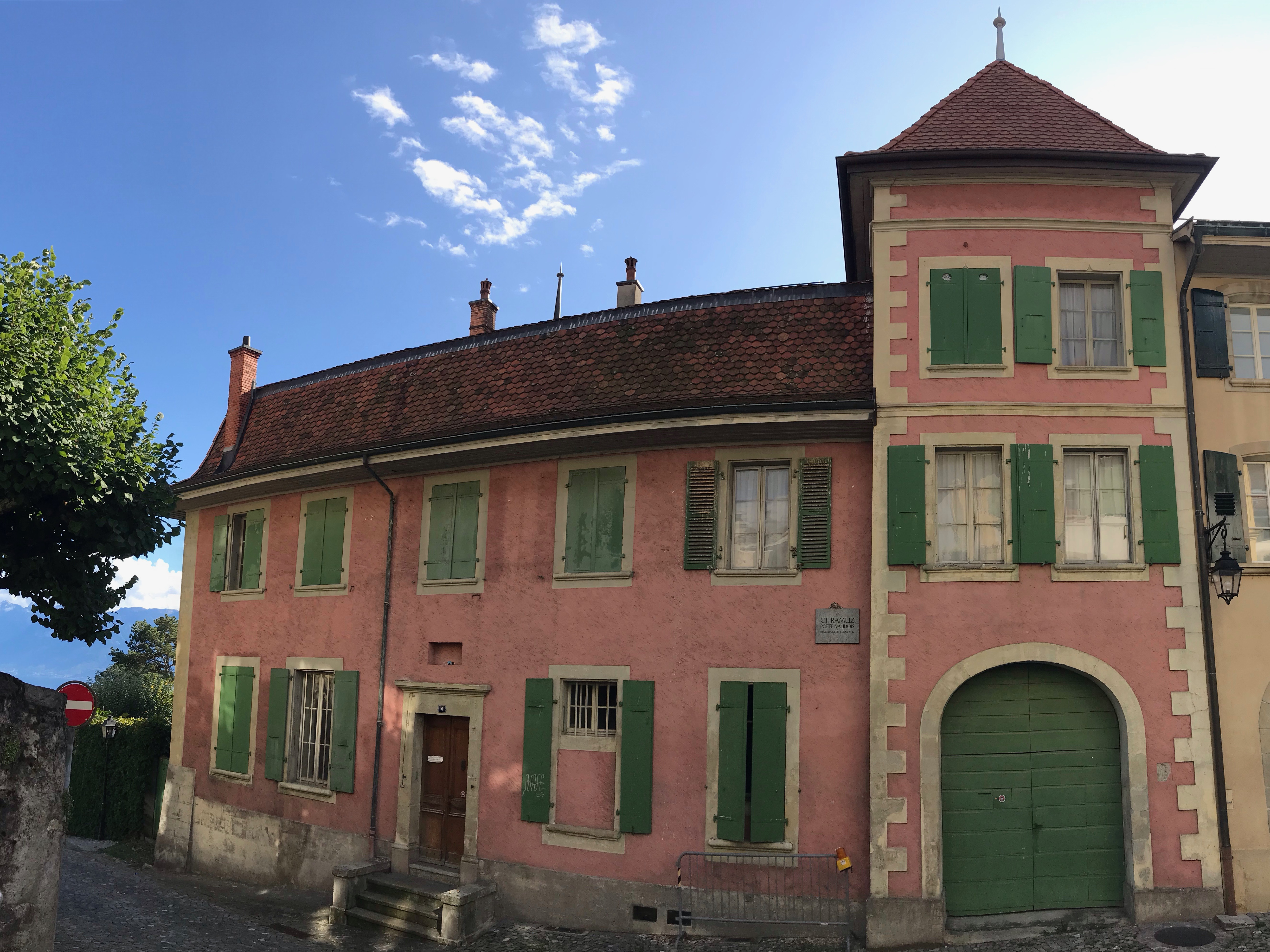 'La Muette', house of the poet C.F. Ramuz, Northern facade seen from the crossing of Chemin Davel and Rlle du Croset in Pully